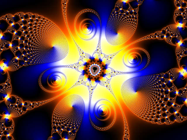 Part of parameter plane with fragment of Mandelbrot set. It is example 01 from my freeware programm fractalizer.